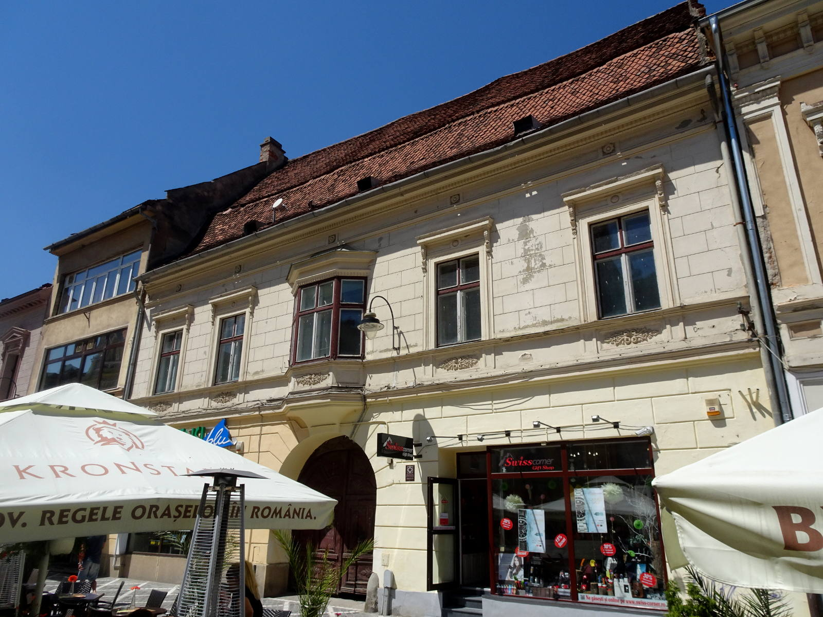 House on Republicii street, Brașov